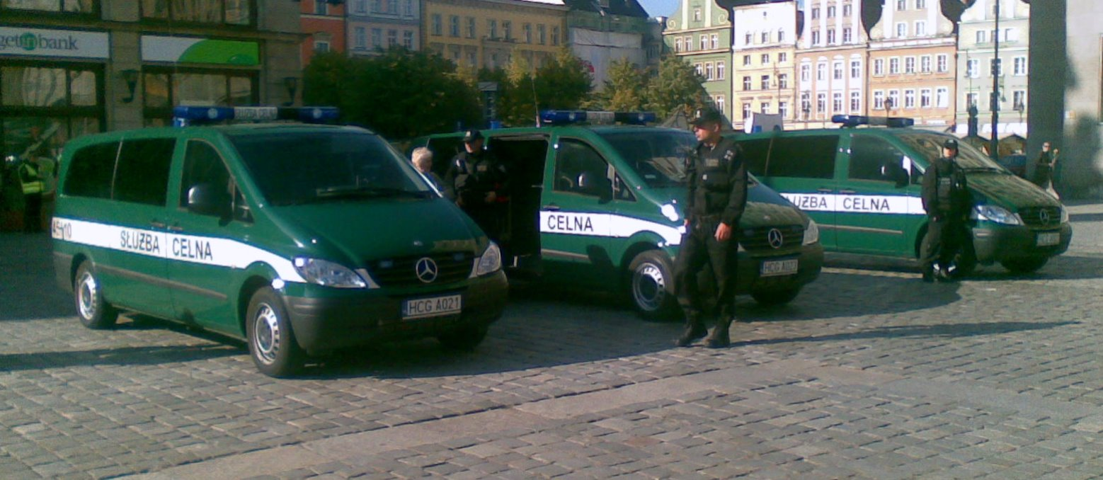 Mercedes-Benz Vito - vehicle of Customs service in Poland